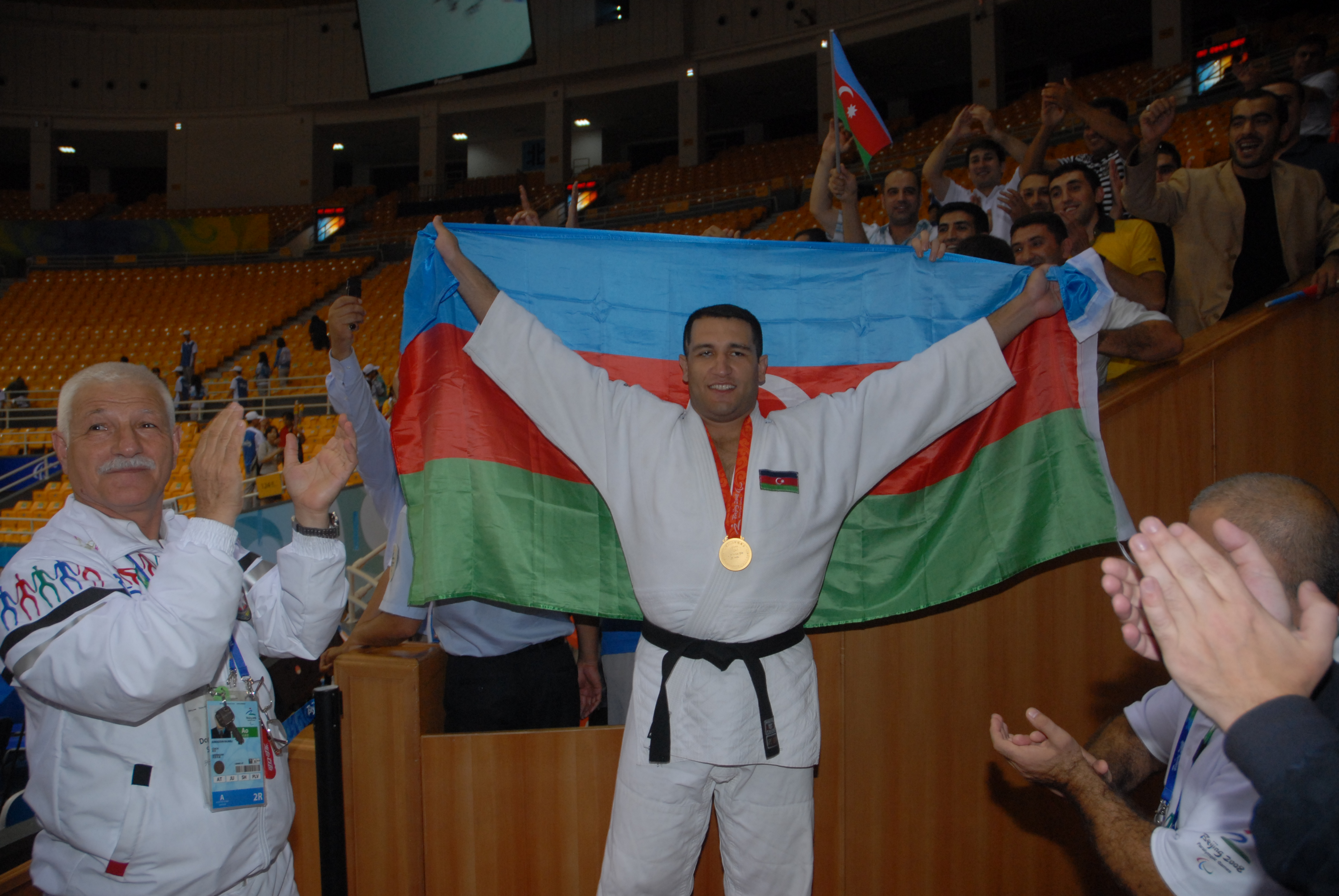 Ilham Zakiyev at 2008 Paralympics